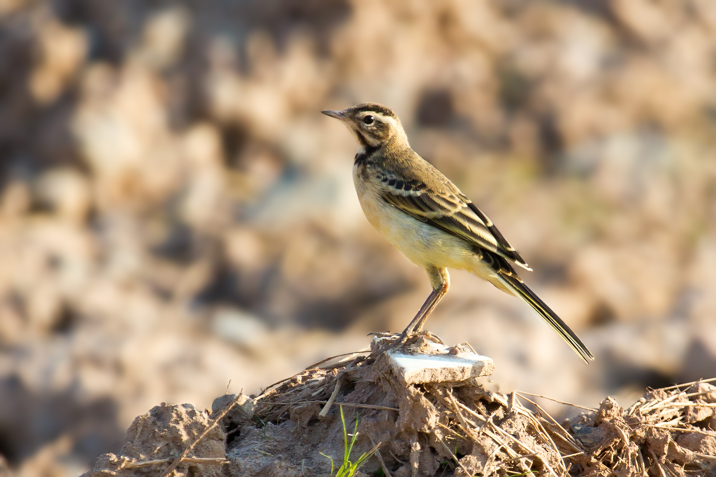 Juvenile Yellow Wagtail (Blue-headed Wagtail)